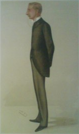 Caricature of Mr H Rider Haggard. Caption read "She"